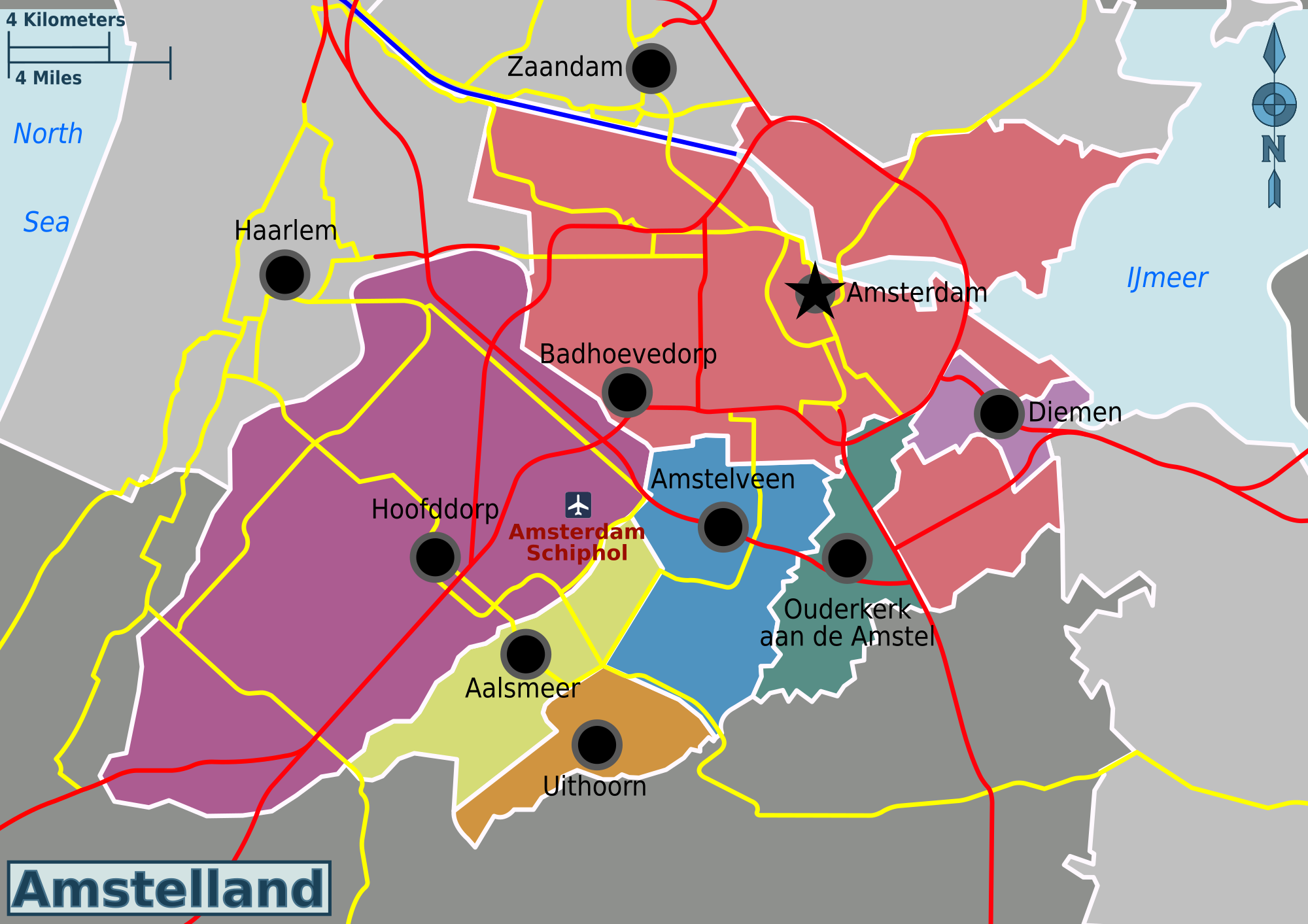 Map of Amstelland, intended for use on Wikivoyage. Amsterdam #d56d76 Hoofddorp #ac5c91 Aalsmeer #d5dc76 Uithoorn #d09440 Amstelveen #4f93c0 Ouderkerk aan de Amstel #578e86 Diemen #b383b3